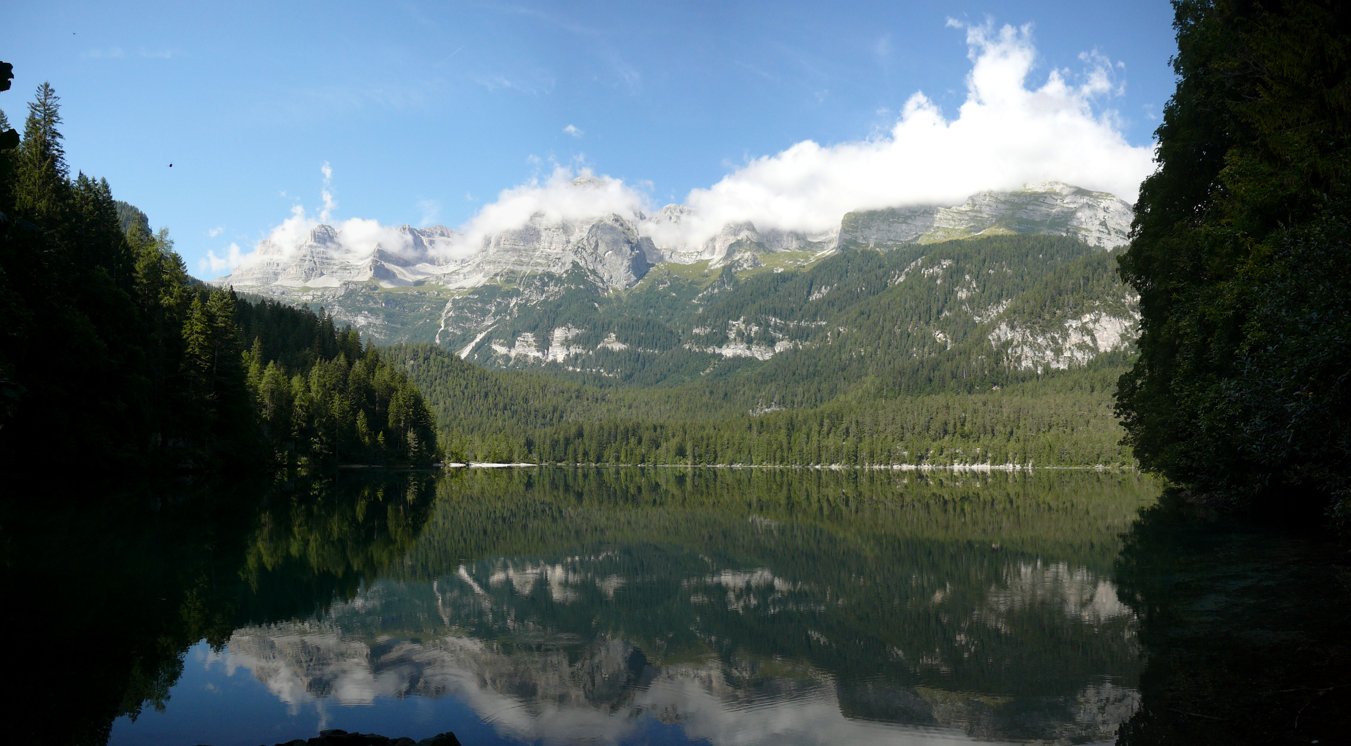 Tovel lake from the east side, an alpine lake in the province of Trento (Italy)